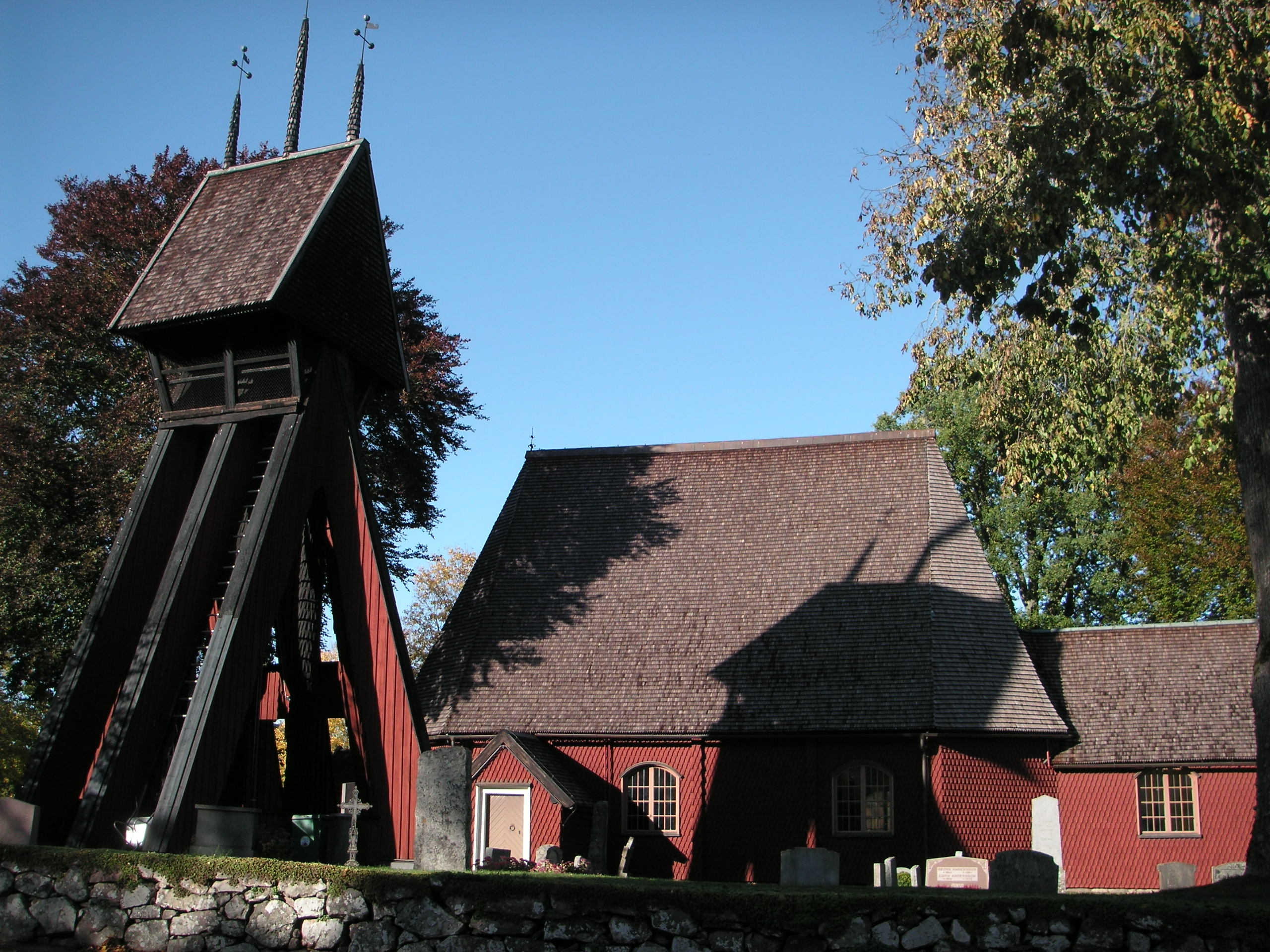 Church in Kvistbro in the municipality Lekeberg in Sweden